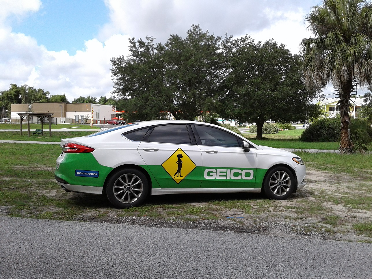 Geico advertisement on car in Florida